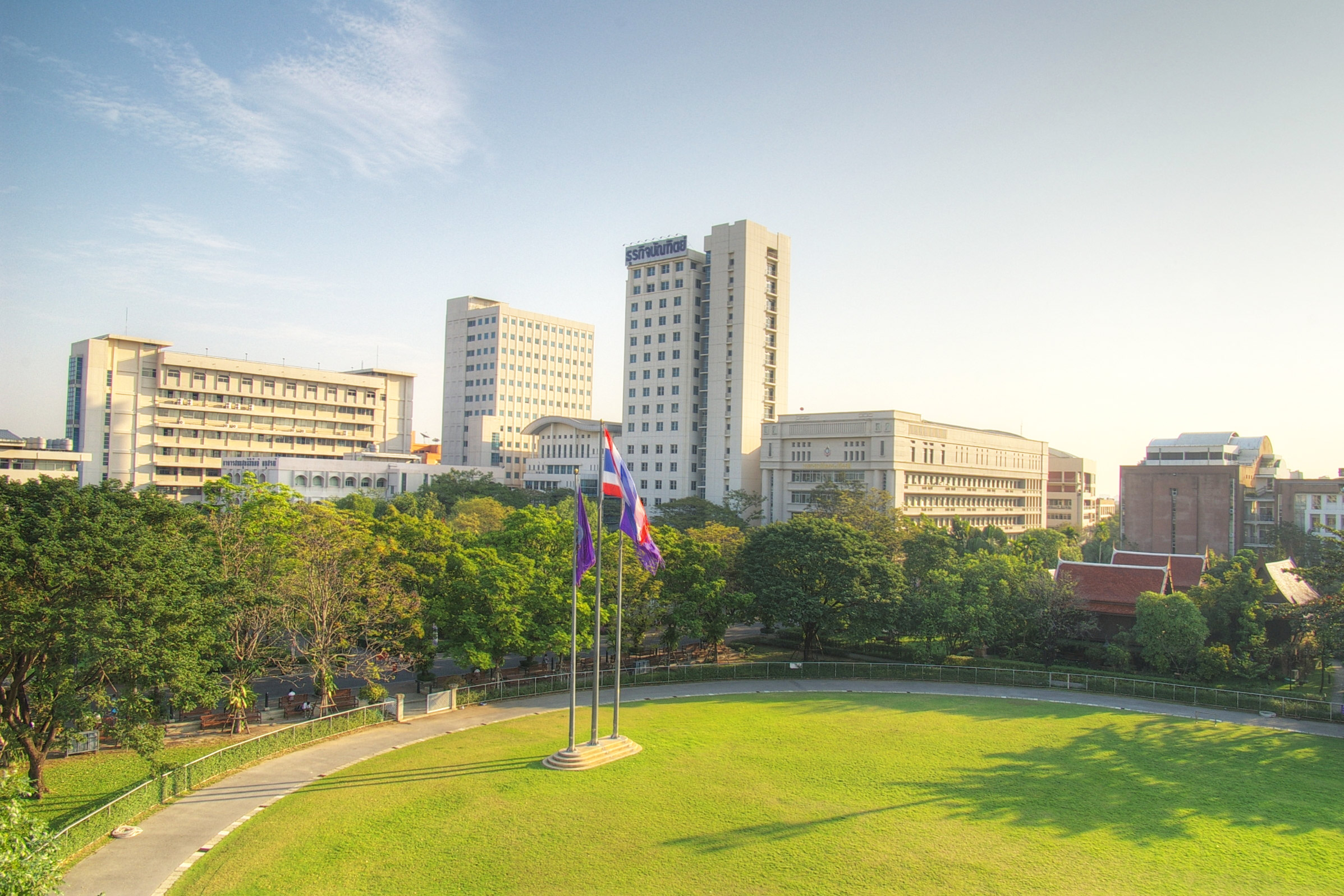 Dhurakij Pundit University